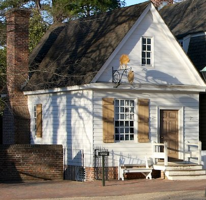 William Hunter's store in colonial Williamsburg